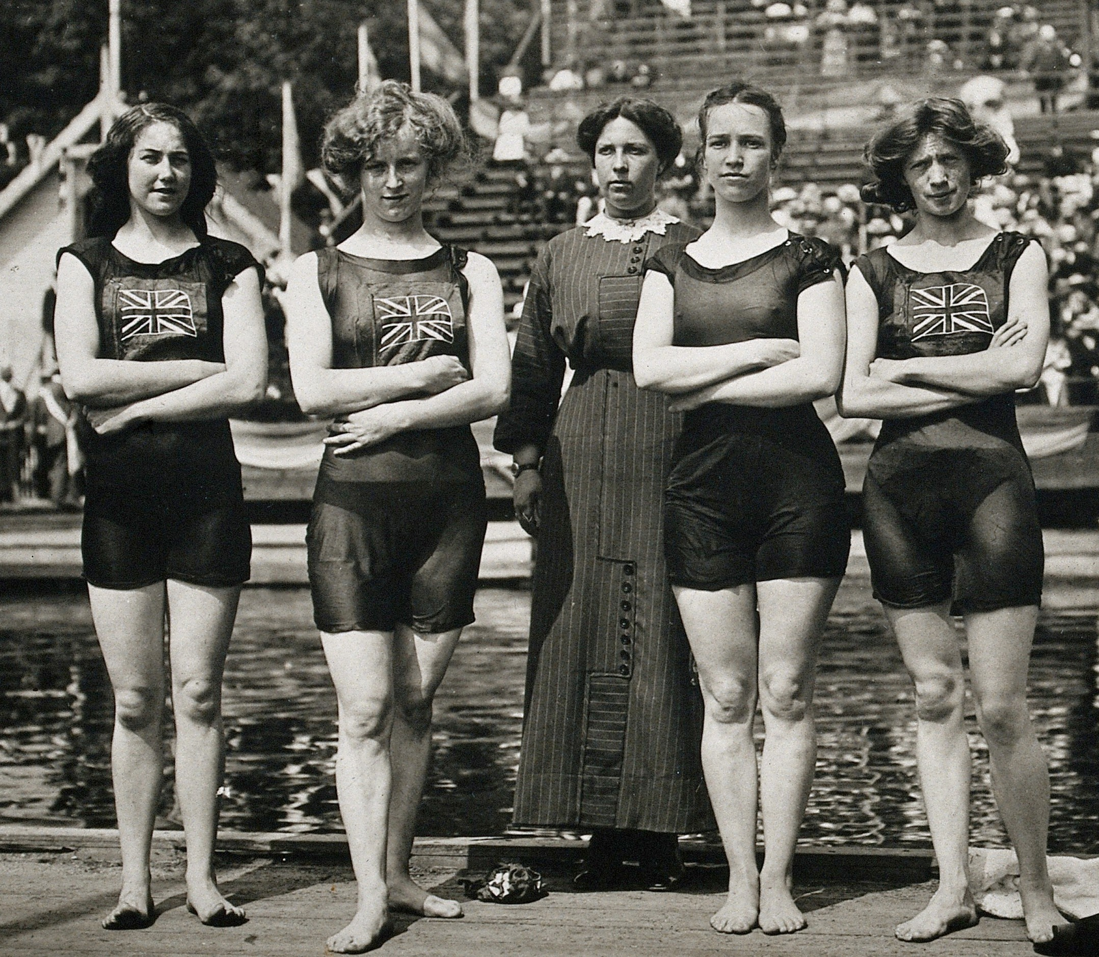 The victorious English 400 m. women's relay swimming team at the Stockholm Olympic Games. Postcard, 1912: Belle Moore, Jennie Fletcher, Annie Speirs, Irene Steer. ID: [1] [2]